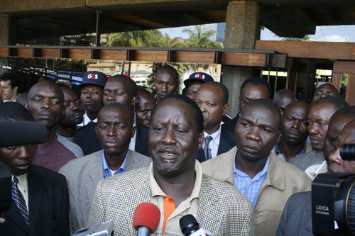 Orange Democratic Movement leader Raila Odinga Address the press after being through out of the tally centre at the KICC in Nairobi.